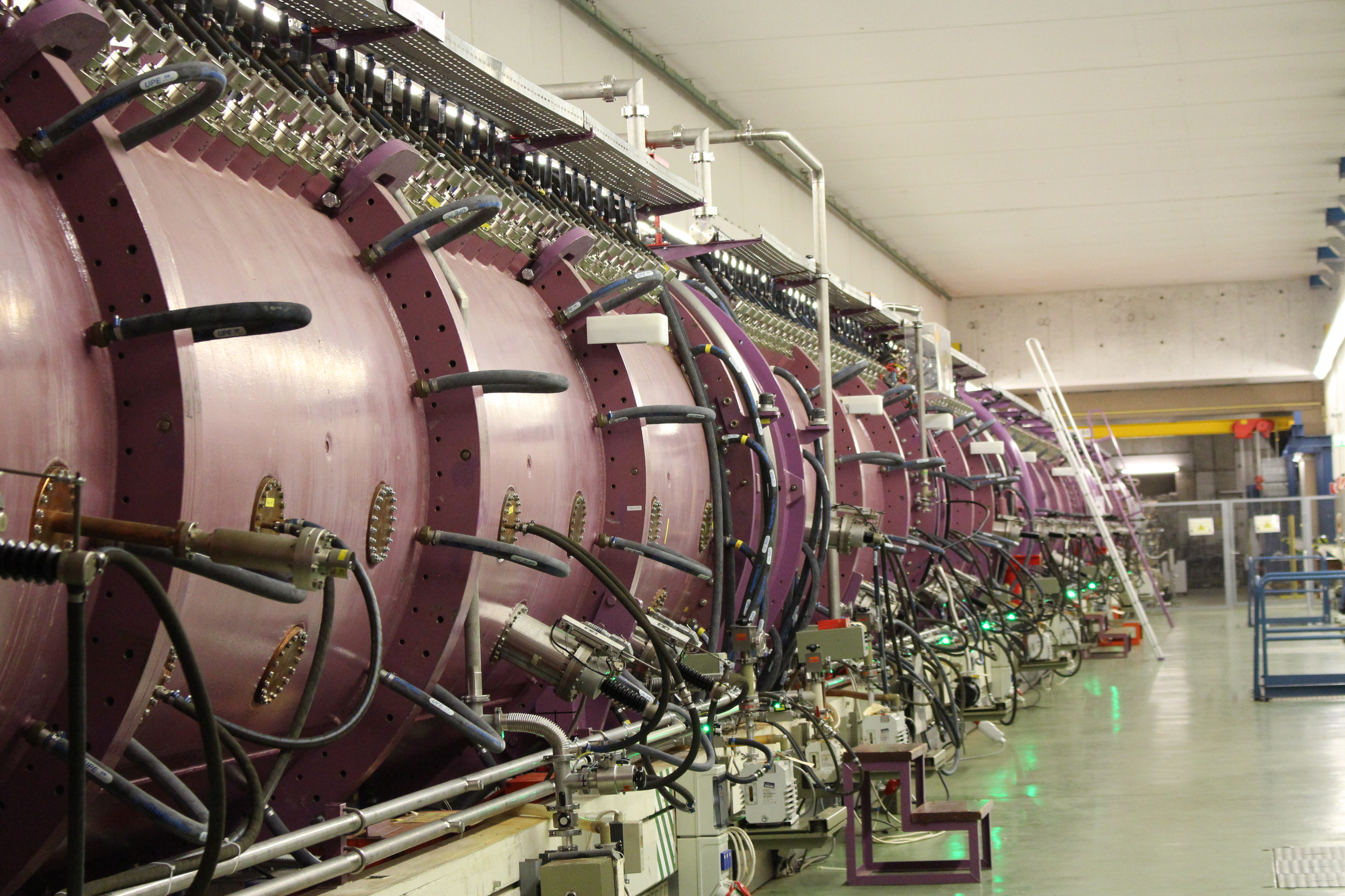 Visit of the GSI Helmholtz Centre for Heavy Ion Research, Darmstadt, Germany.